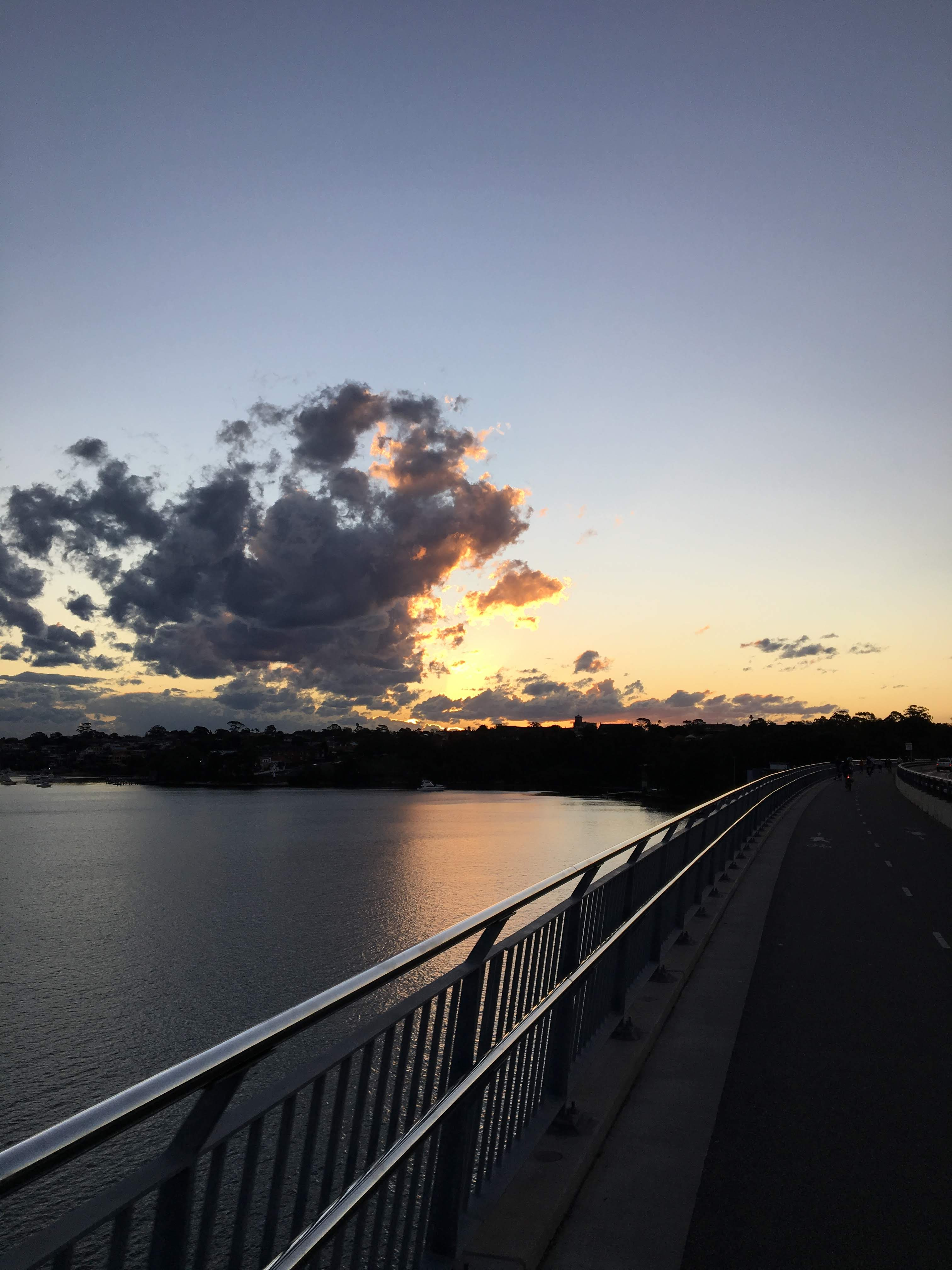 Sunset on Iron Cover